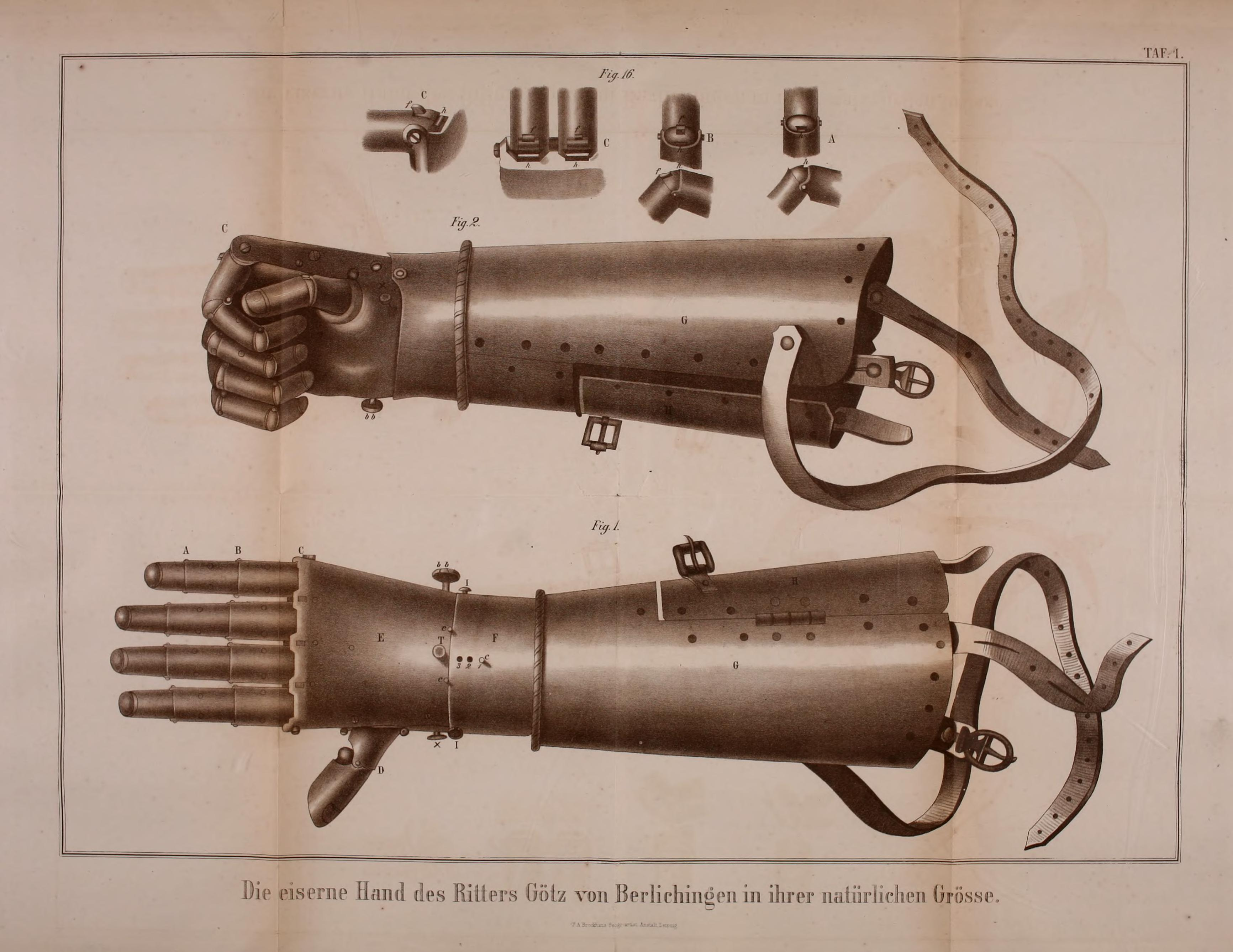 Iron Hand (Prosthesis) of Götz von Berlichingen, originally from c. 1510, 19th century steel engraving.